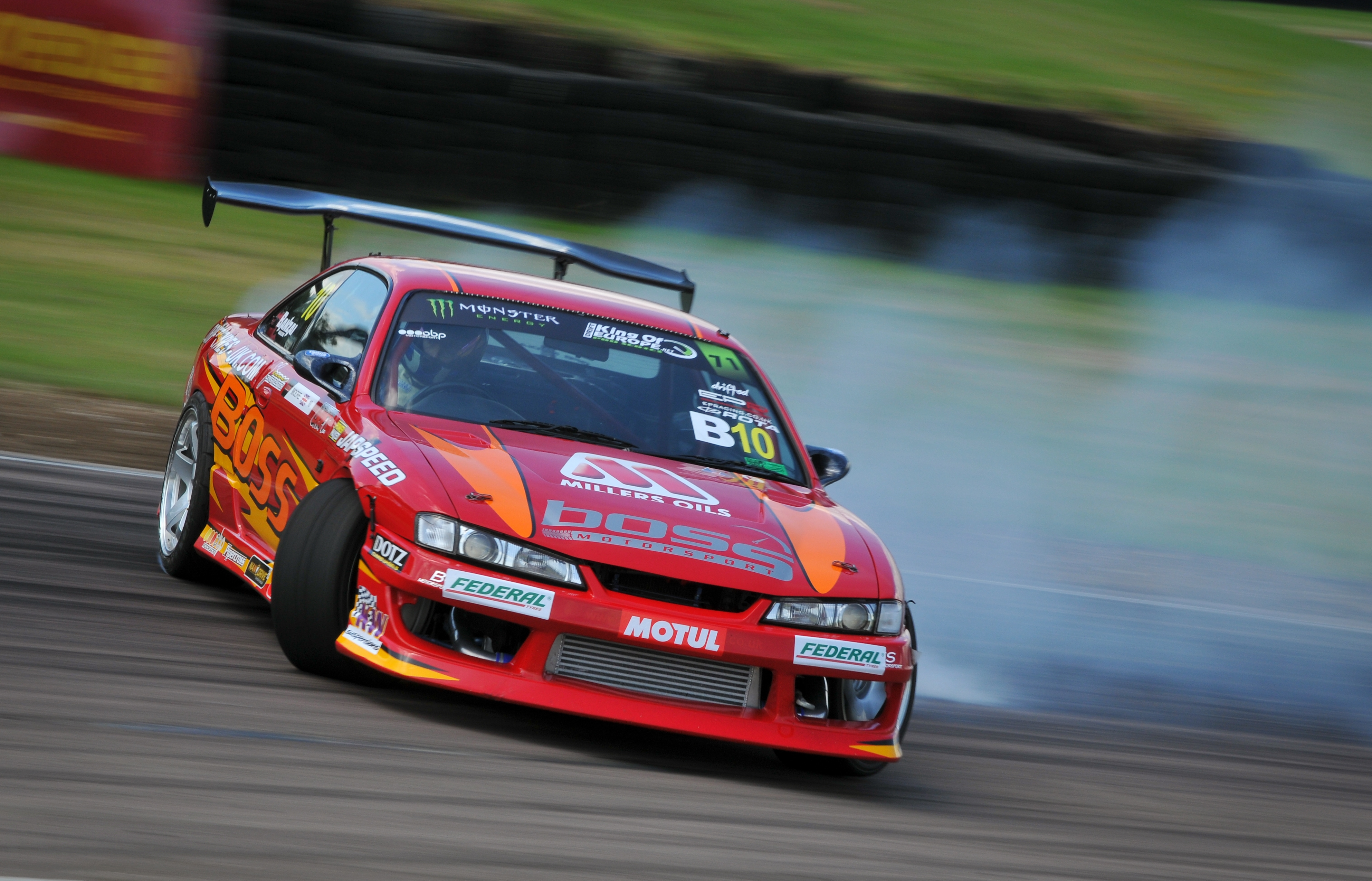 Steve Moore drifting his SR20-powered Boss Motorsport Nissan Silvia (S14) around Lydden Hill at King of Europe Round 3.